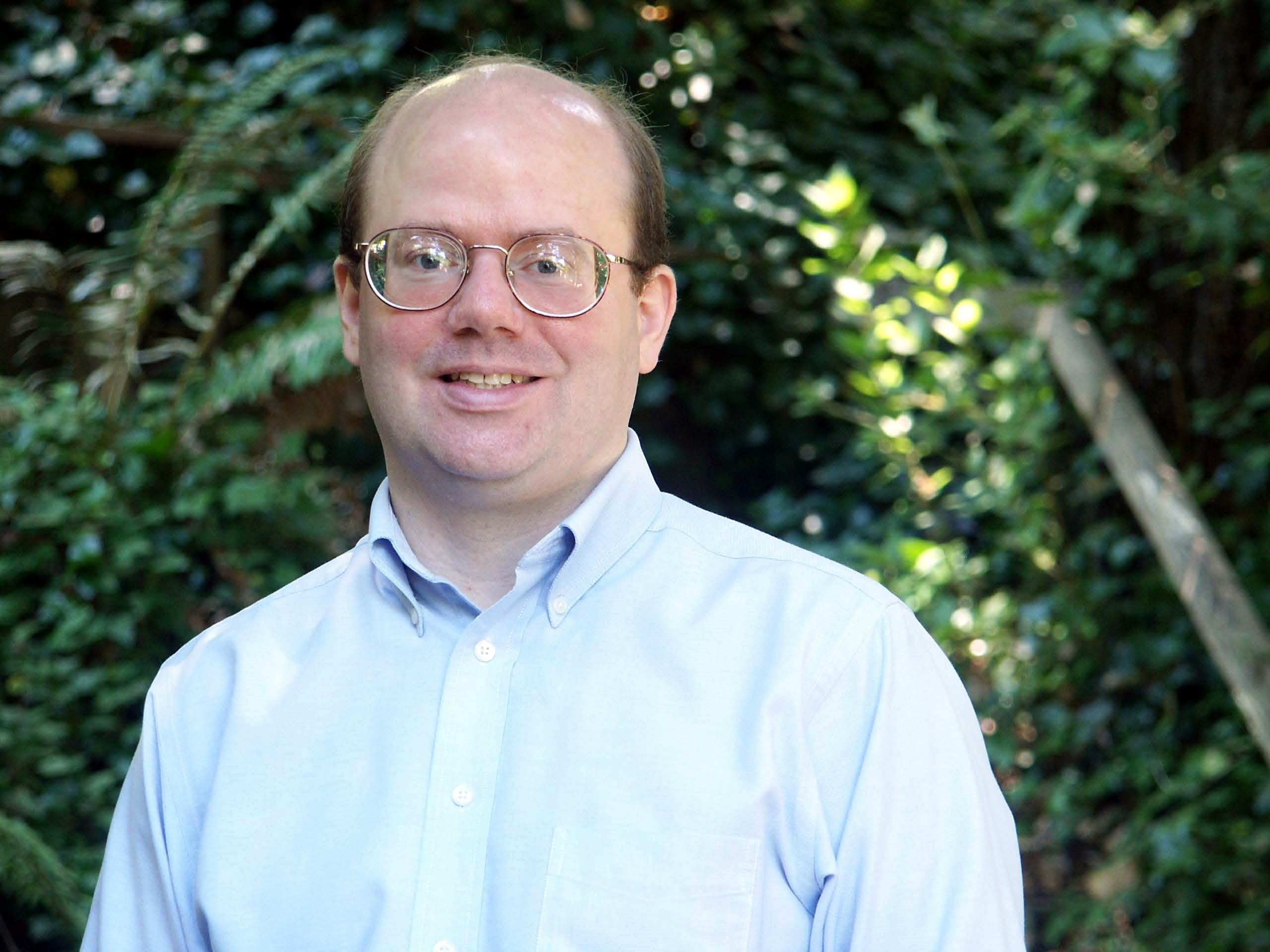 Larry Sanger, cofounder of Wikipedia and founder of Citizendium